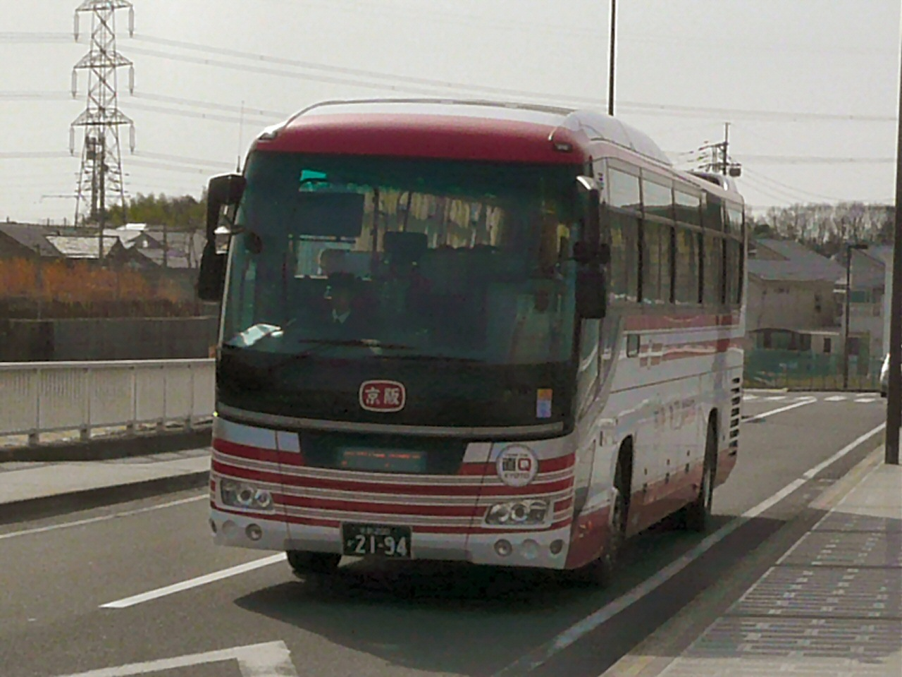 Express bus "Direct Express Chokkyu Kyoto Go" operated by Keihan Bus Co., Ltd. (Car No. H-3967)